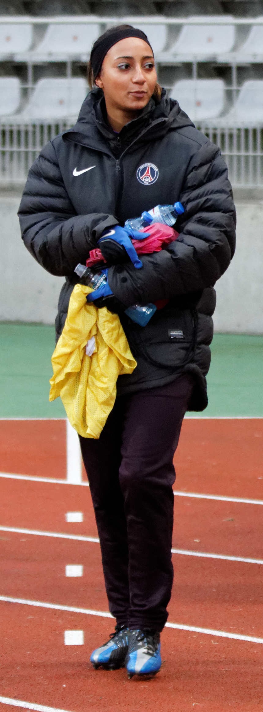 PSG-Juvisy, december 9th, 2012. Saïda Akherraze (PSG).